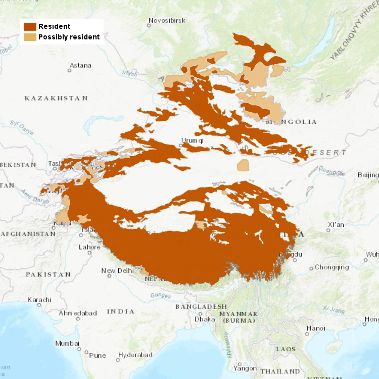 Distribution of Snow Leopard